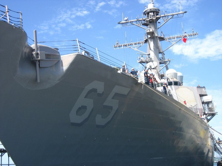 USS BENFOLD hull